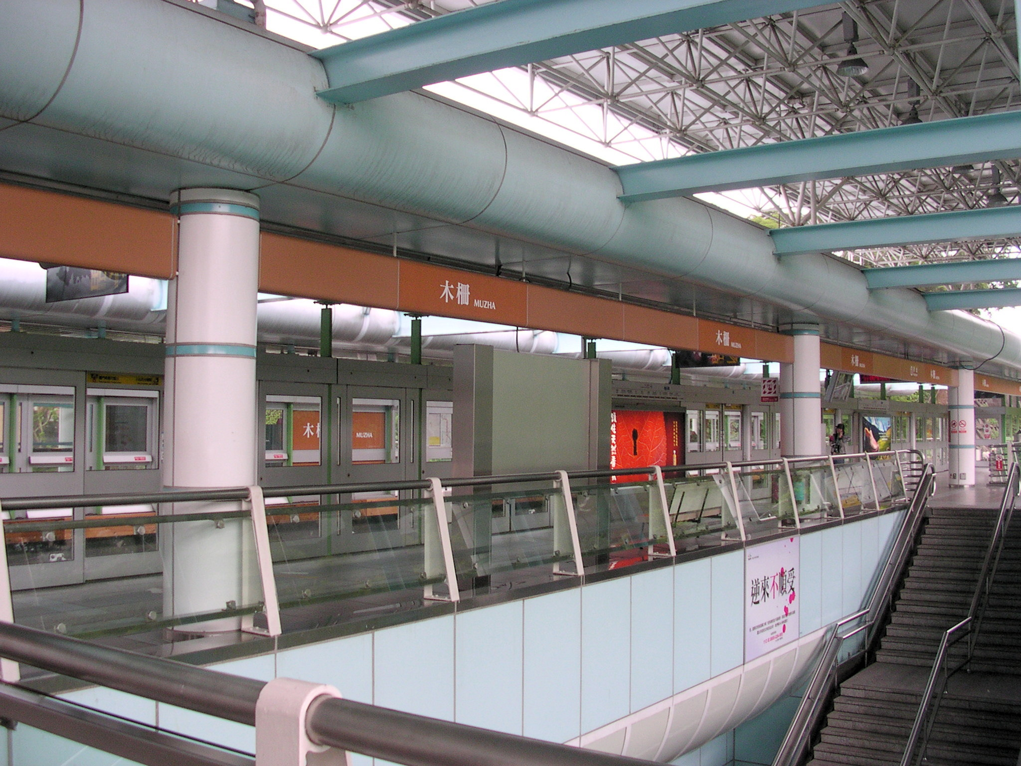 Inside Taipei MRT Muzha Station.